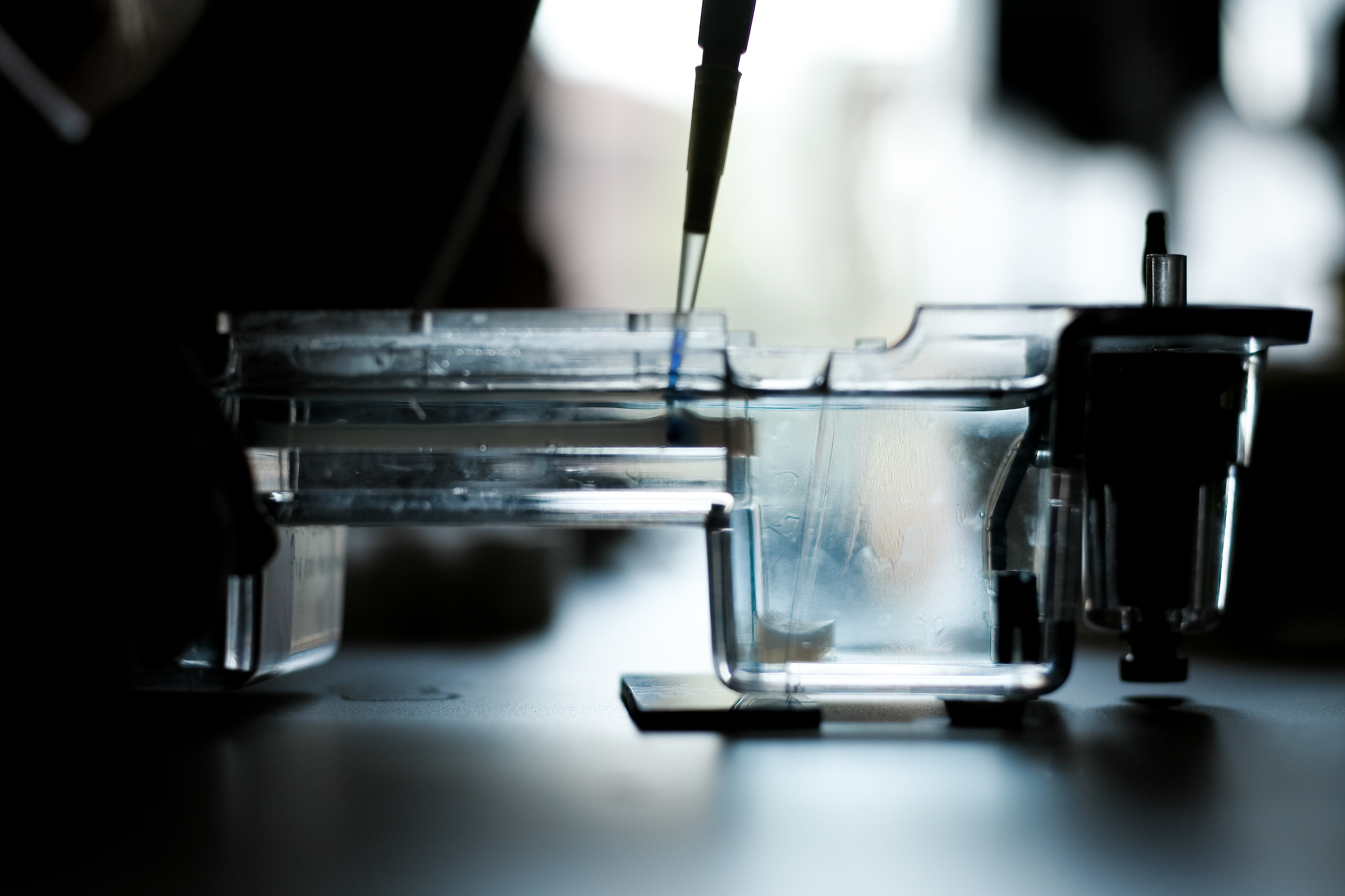 Load a sample into an agarose gel